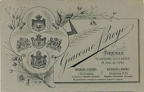 Trademark of the Italian photographer Giacomo Brogi (1822-1881).